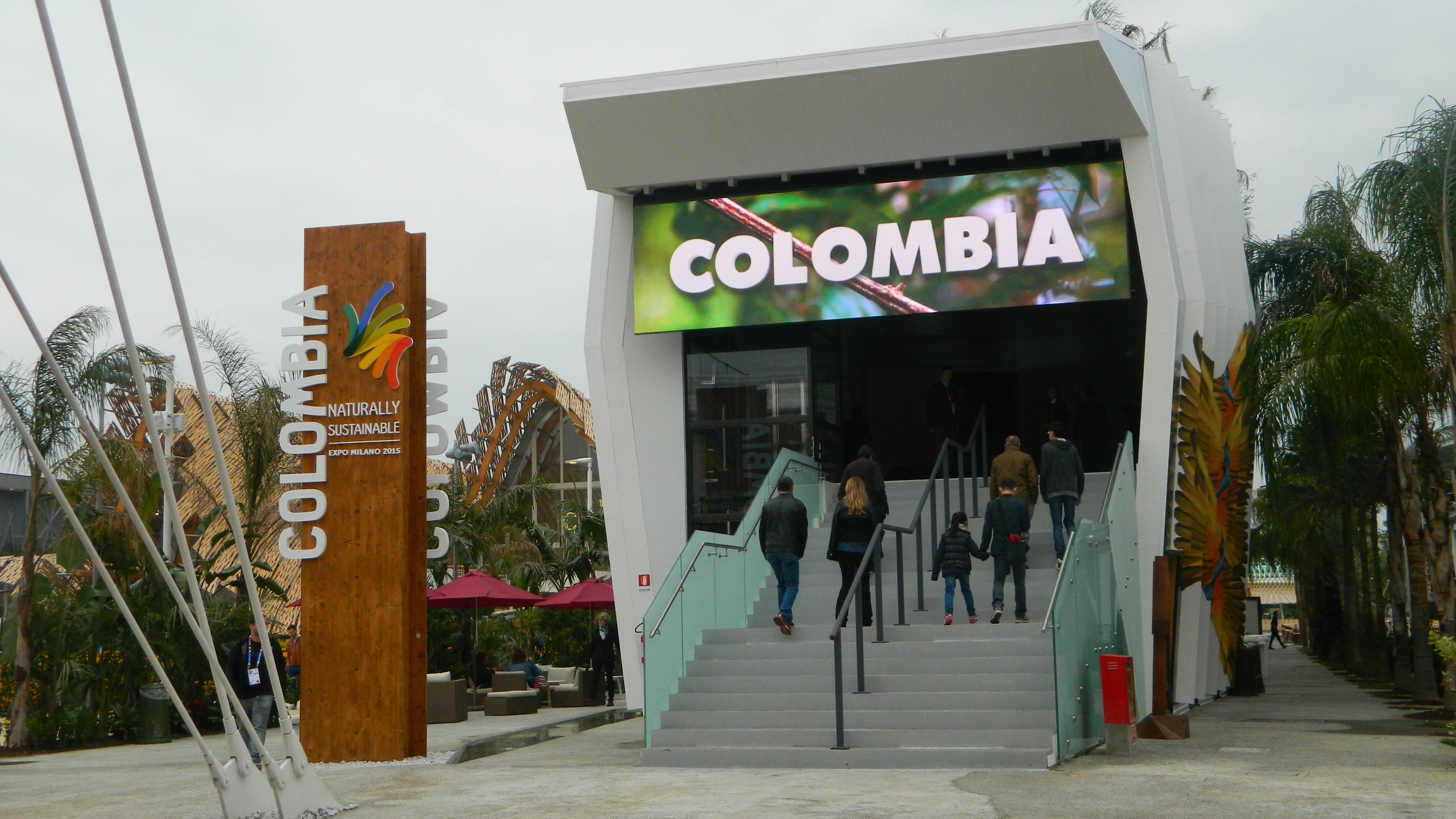 Colombia Pavilion at Expo 2015 Milano